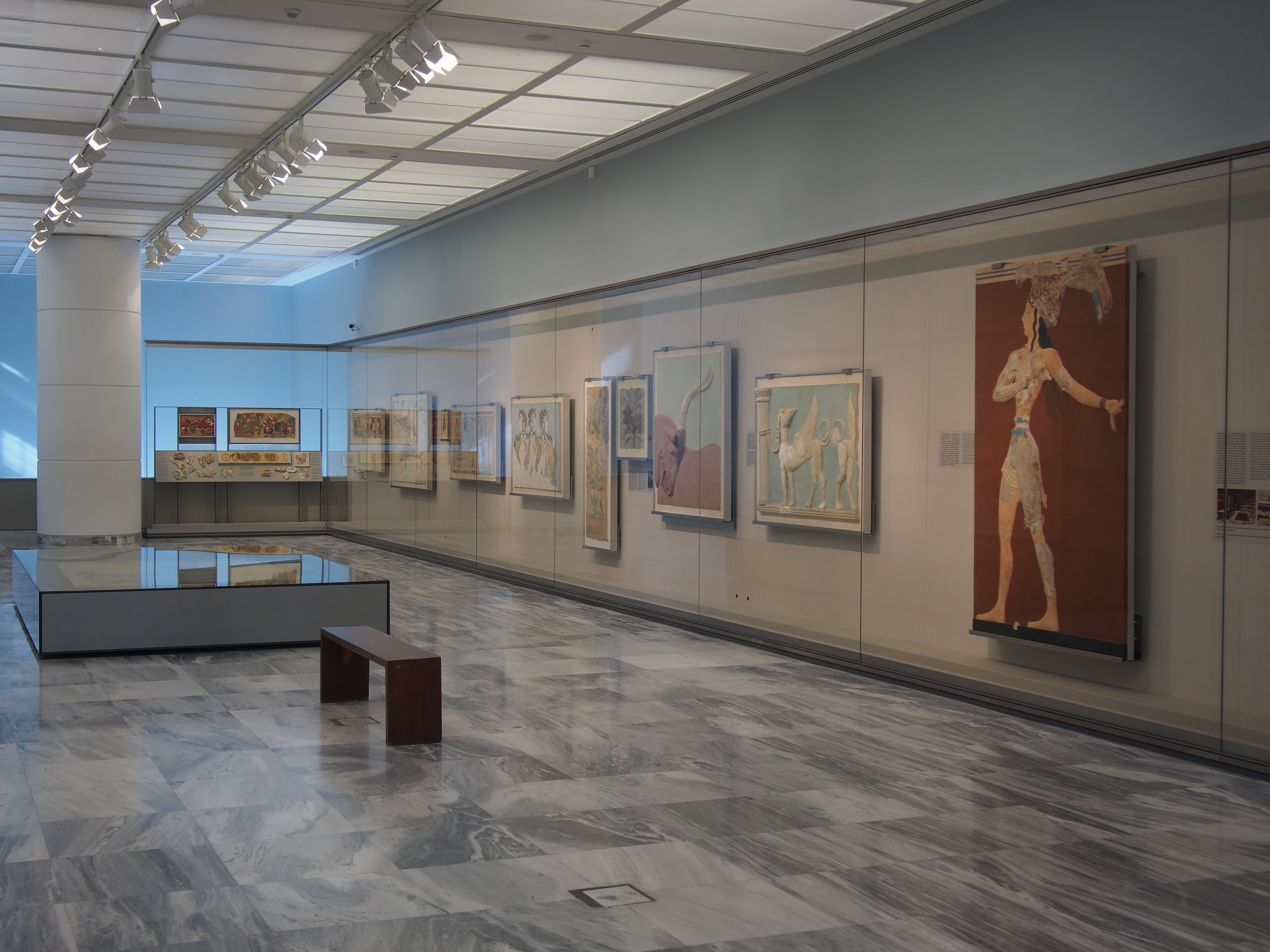 The rooms of Minoan frescoes, Archaeological Museum of Heraklion. At the right end is the fresco of the Prince with the Lilies